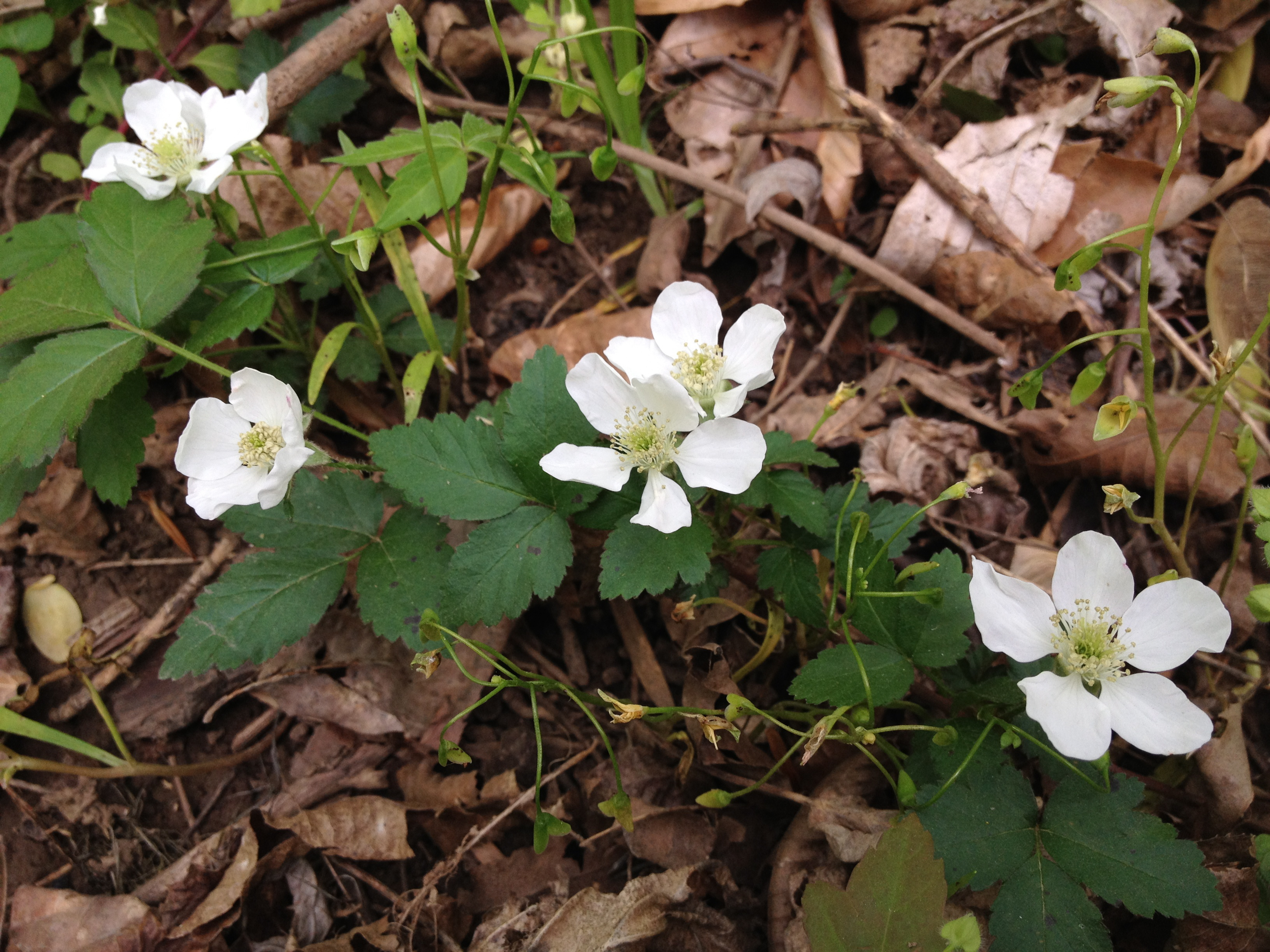 Photo of Rubus flagellaris in flower. This is a native plant growing wild on Theodore Roosevelt island, Washington, D.C., USA. This species is a member of the Rosaceae family.